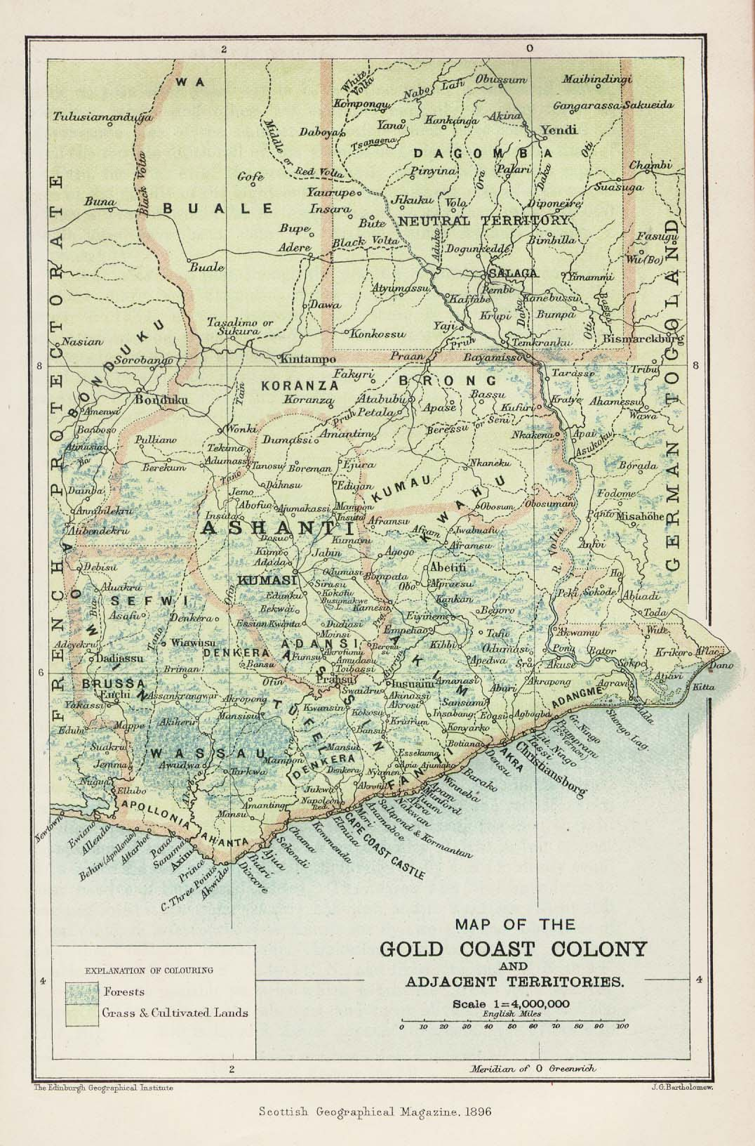 Map from 1896 of the British Gold Coast Colony (today Ghana).